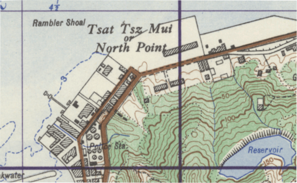 The map of Hong Kong drawn in 1945, this section shows the whereabouts of North Point. At that time, the name North Point was meaning the same place as "Tsat Tsz Mui" in Cantonese.